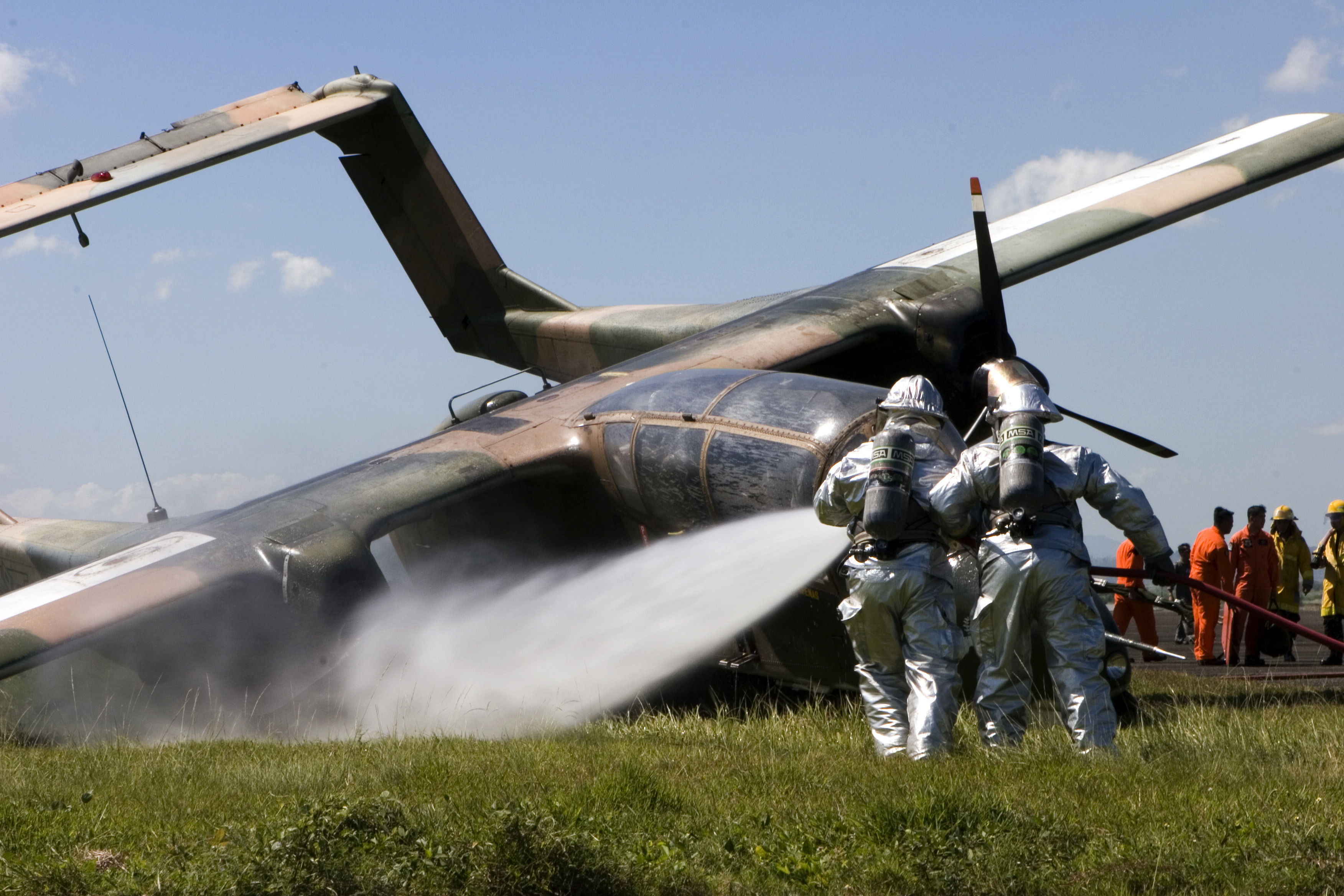 A U.S. Marine Corps crash, fire, and rescue team respond to a crashed Philippine Air Force North American OV-10 Bronco aircraft that swerved off the runway upon landing at Clark Air Base in Pampanga, Philippines, 24 October 2006. The Marines, attached to Marine Aircraft Rescue Firefighting Unit, Marine Wing Support Squadron 172, 3rd Marine Expeditionary Brigade, were in the Philippines participating in the bilateral training exercises Talon Vision '07 and Amphibious Landing Exercise '07, which were designed to enhance interoperability and professional relations between the U.S. and Philippine armed forces. (U.S. defenseimagery description)